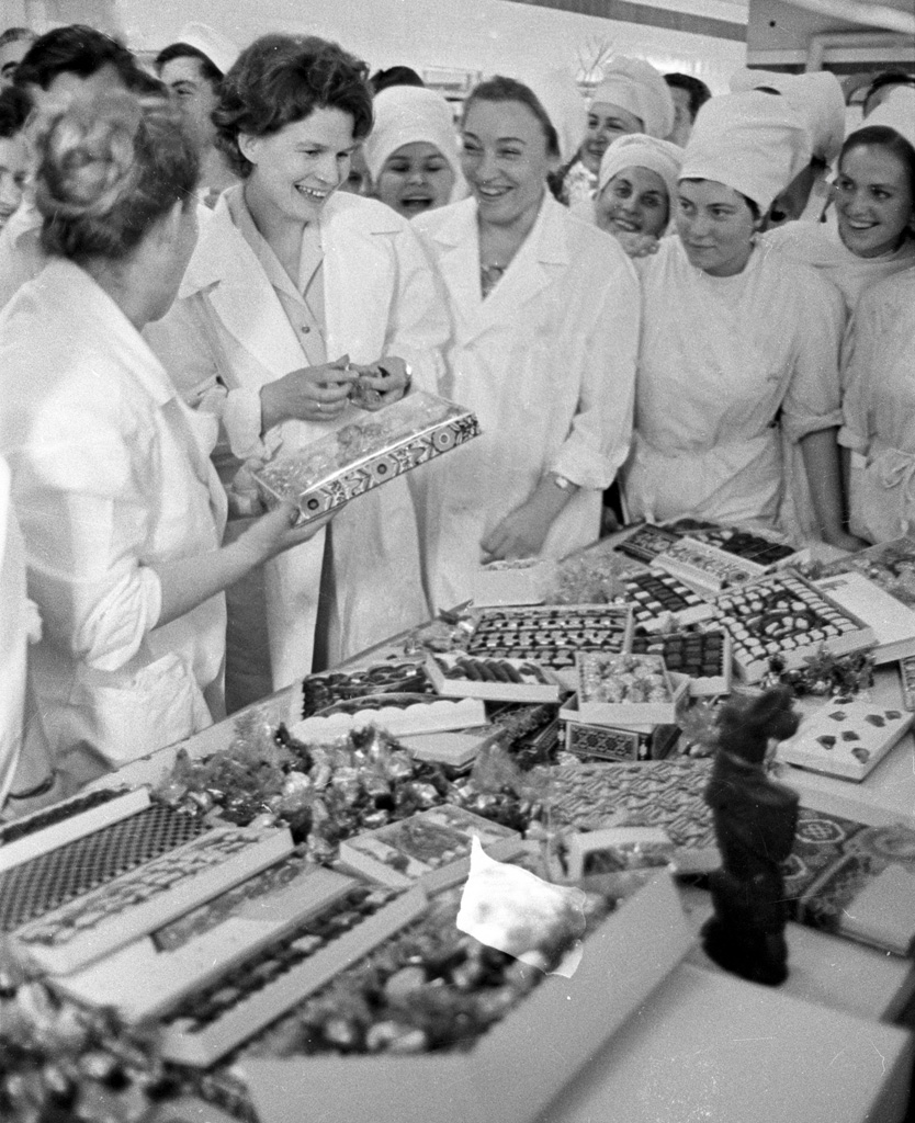 Cosmonaut Valentina Tereshkova visiting the Lvov confectionary.